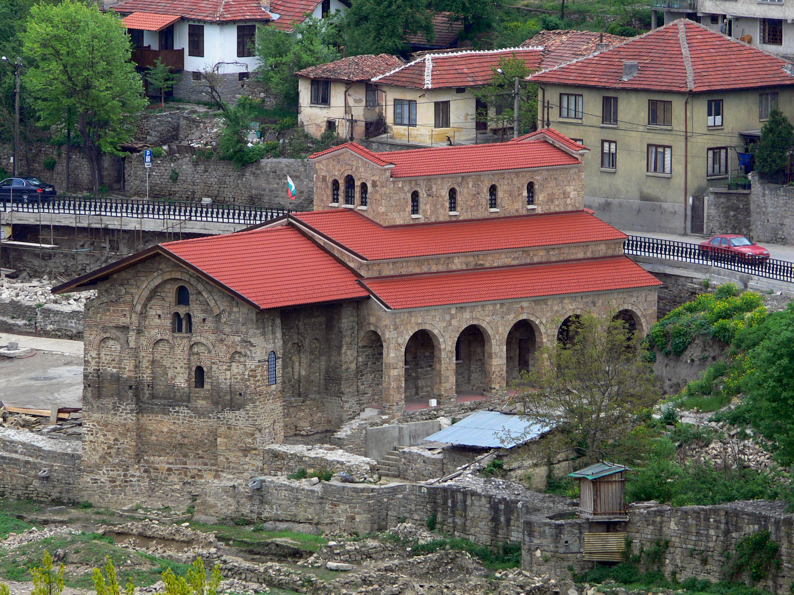 Forty Martyrs Church, Veliko Tarnovo, Bulgaria